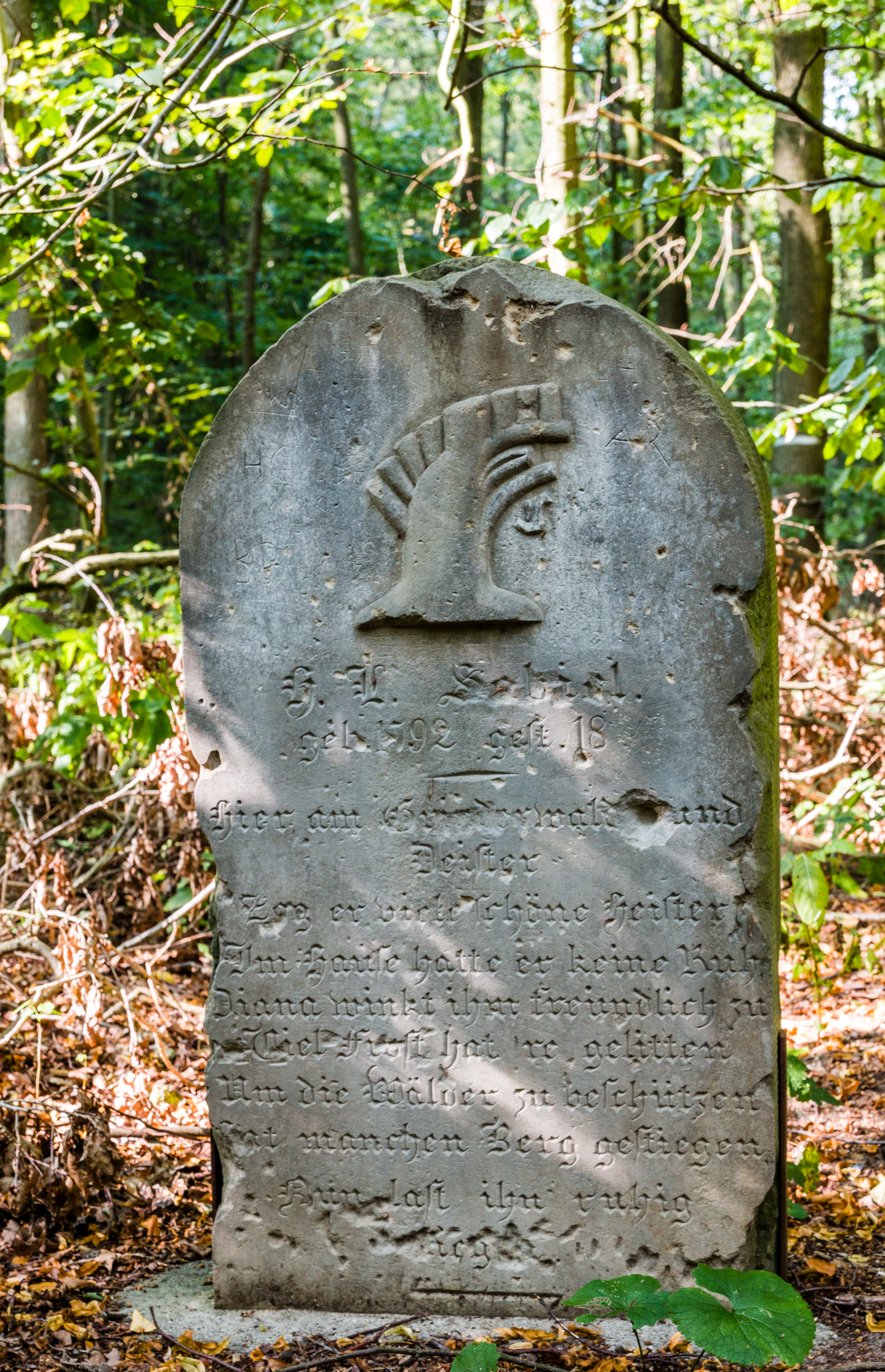 The cultural heritage monument forester stone (monument) in Bockmerholz in the district Kirchrode-Bemerode-Wülferode of Hannover, who in the 19th century by the forester Heinrich Ludwig Sabiel (1792-1882) was even erected.